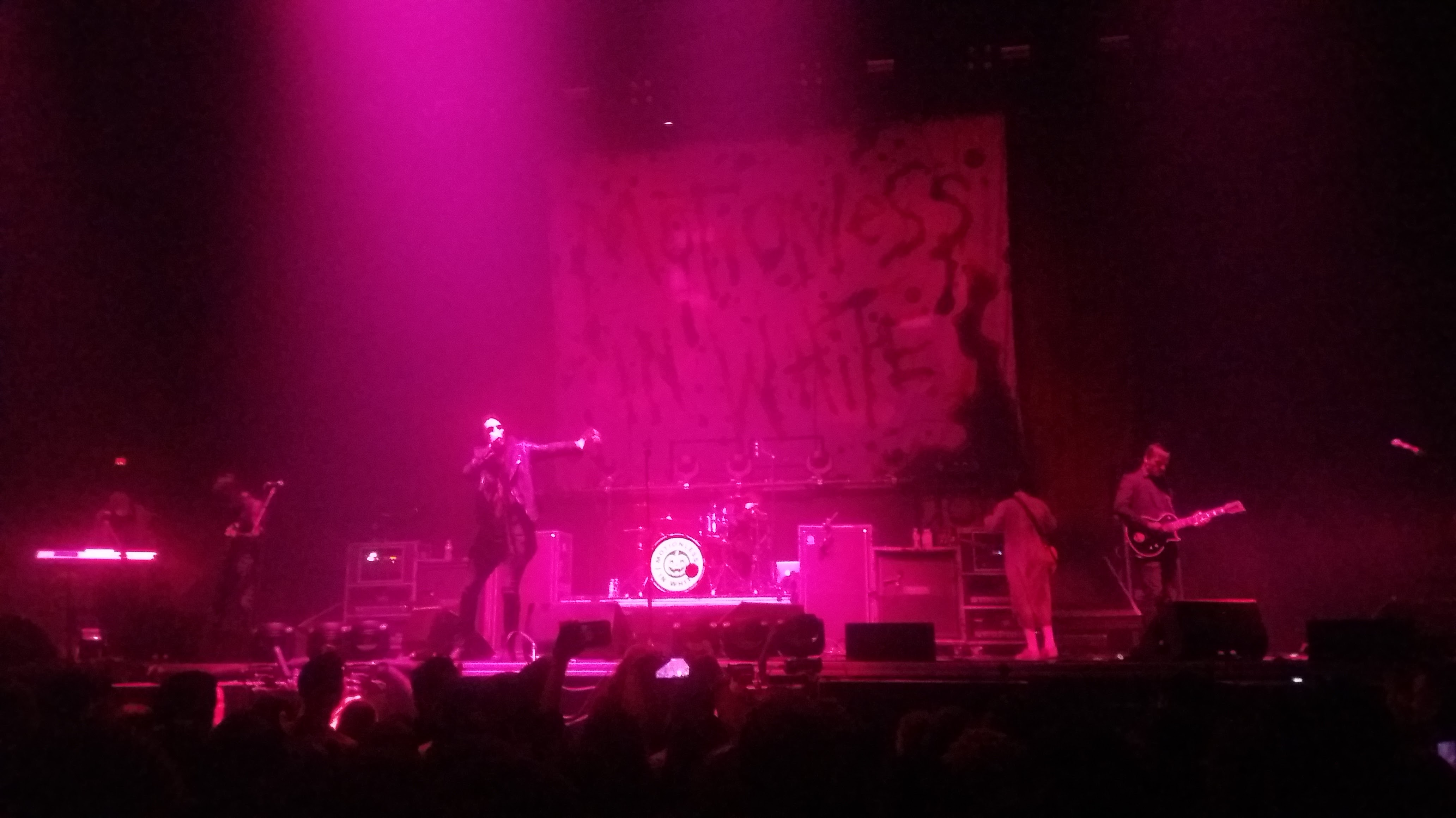 Motionless in White playing at the Kansas Expocenter in 2016.